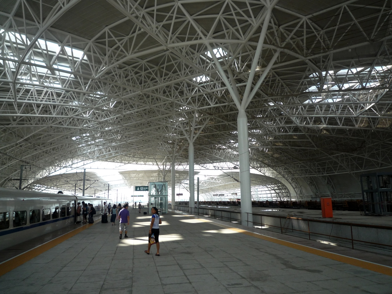 Kunshan South Railway Station Platform